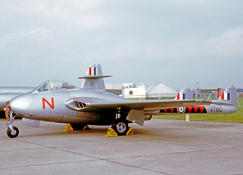 DH.100 Vampire F.3 VT812 wearing the markings of No. 601 Squadron RAF at RAF Abingdon in 1968